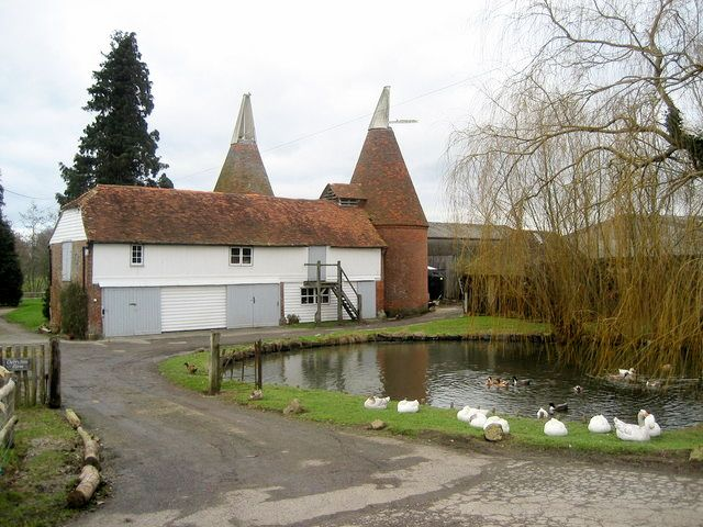 Oast House at Cherry Tree Farm, Mill Lane, Frittenden, Kent, England, a Grade II listed building